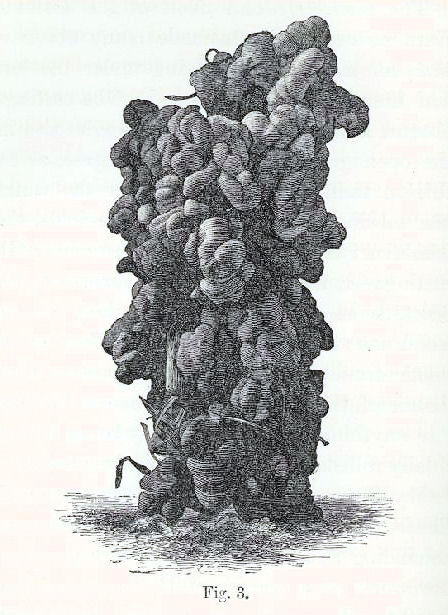 Tower-like casting, probably ejected by a species of "Perichaeta", from the Botanic Garden, Calcutta; engraved from a photograph